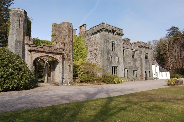 Armadale Castle The section on the left was built as a house at the end of the eighteenth century, and extended to be a castle in 1815. It was burnt down in 1855, and is today a sculptured ruin. The large section in the middle was built as a replacement, but was abandoned to the elements in 1925. The only section in use is the white painted building at the far right.